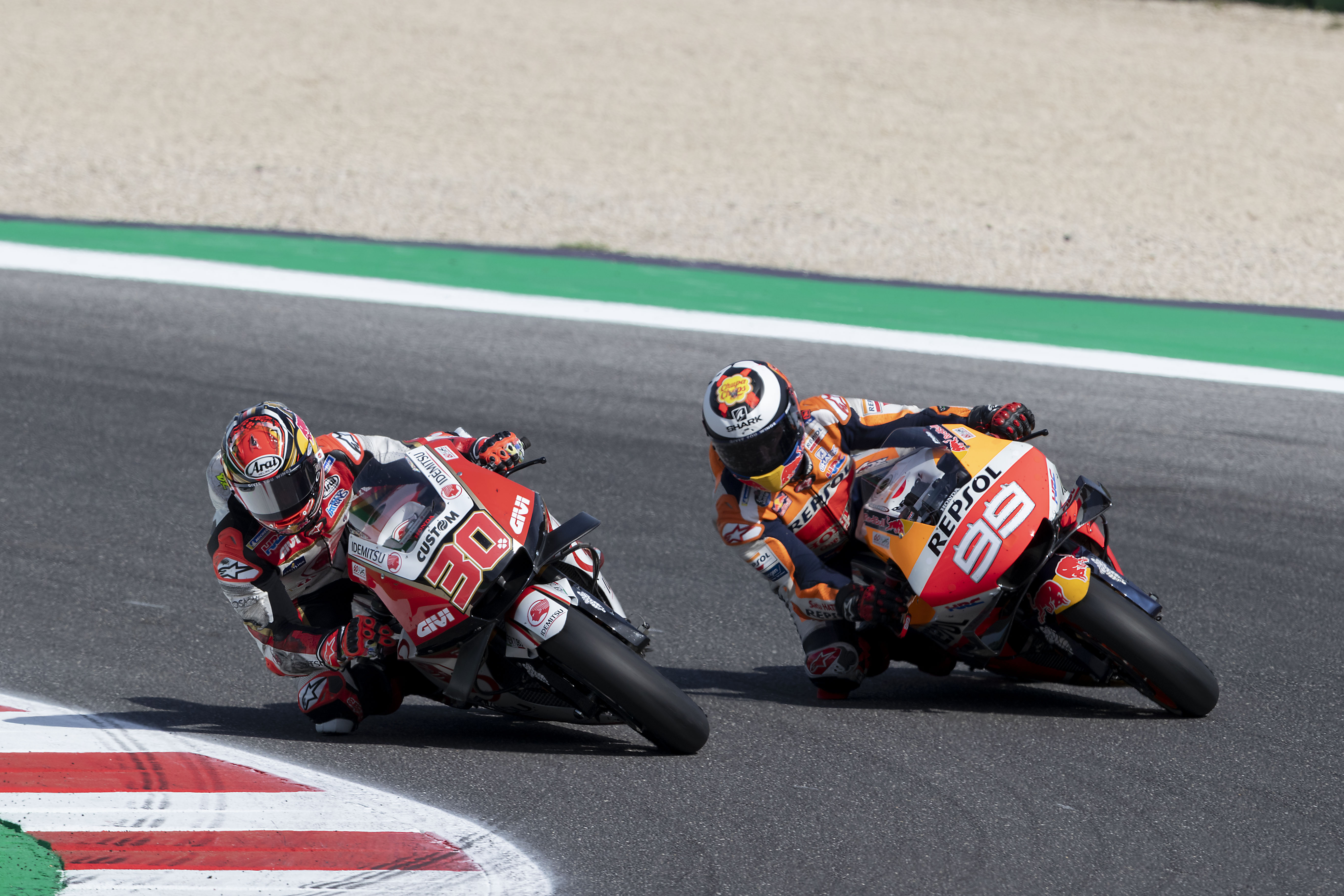 Takaaki Nakagami, riding his Idemitsu LCR Honda, battling with the Repsol Honda of Jorge Lorenzo at the 2019 San Marino and Rimini's Coast Grand Prix.